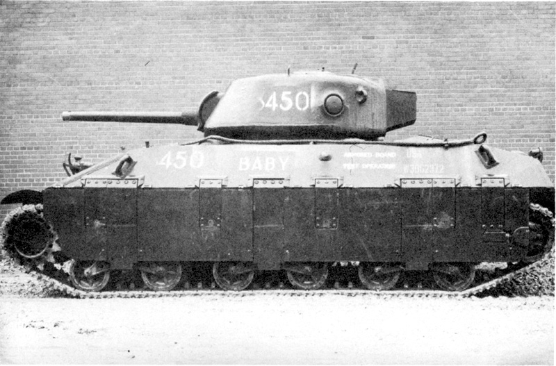 Assault tank T14 at Aberdeen Proving Ground, 1943.